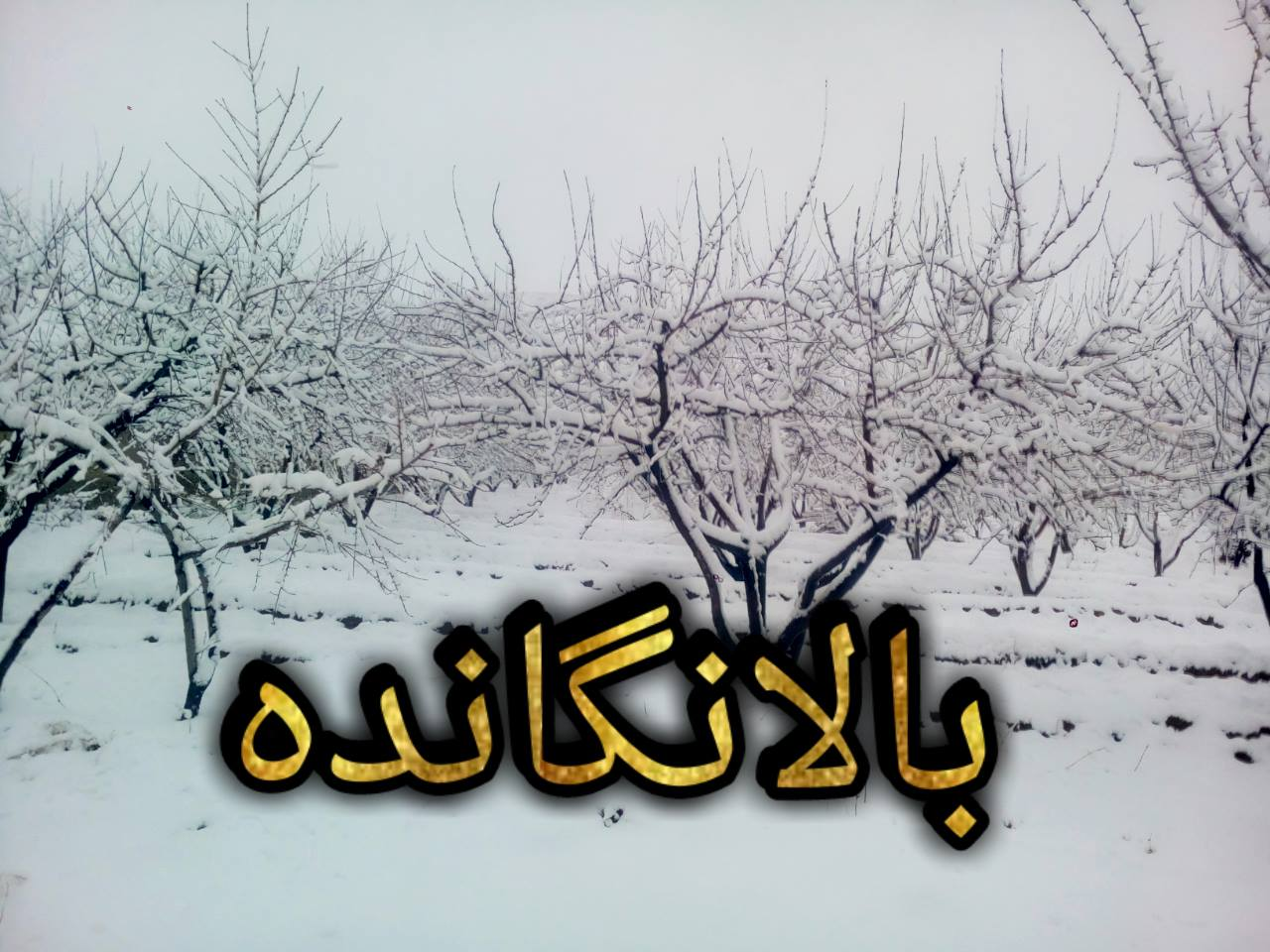 View of orchard in winter